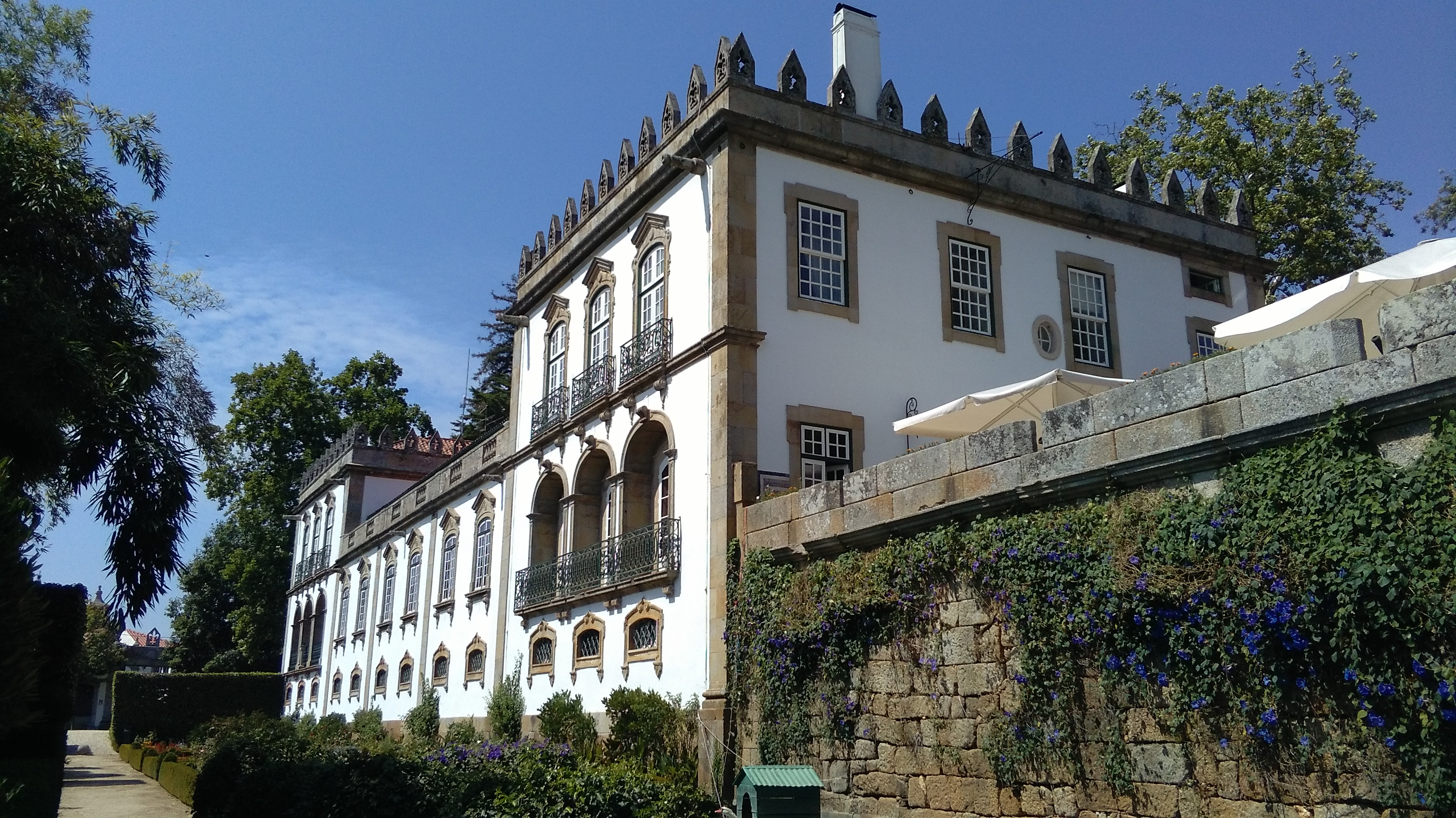 View of the garden facade of Casa da ínsua in Penalva do Castelo, Portugal.